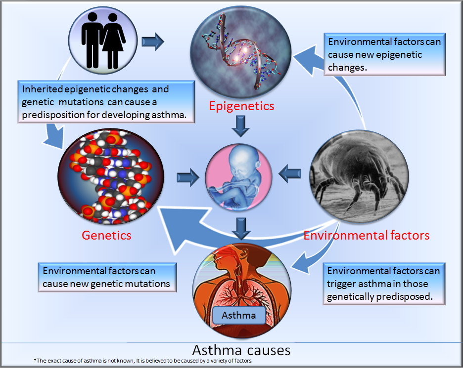 Possible causes of asthma.